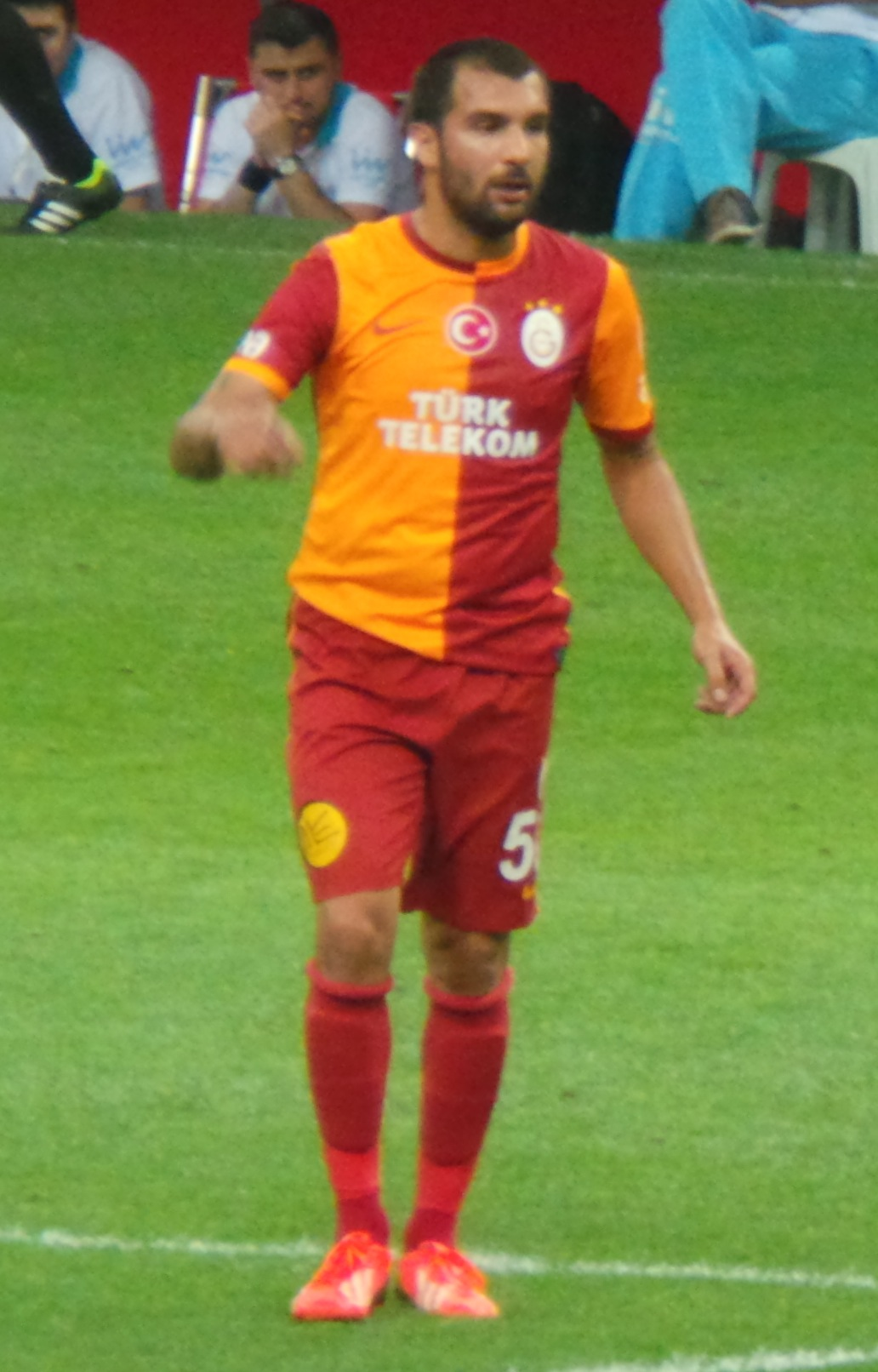 Engin Baytar